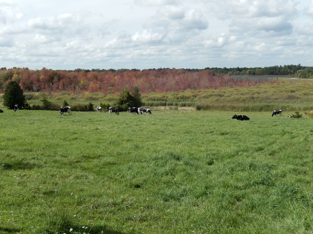 Holleford Crater and cows, Holleford, Ontario